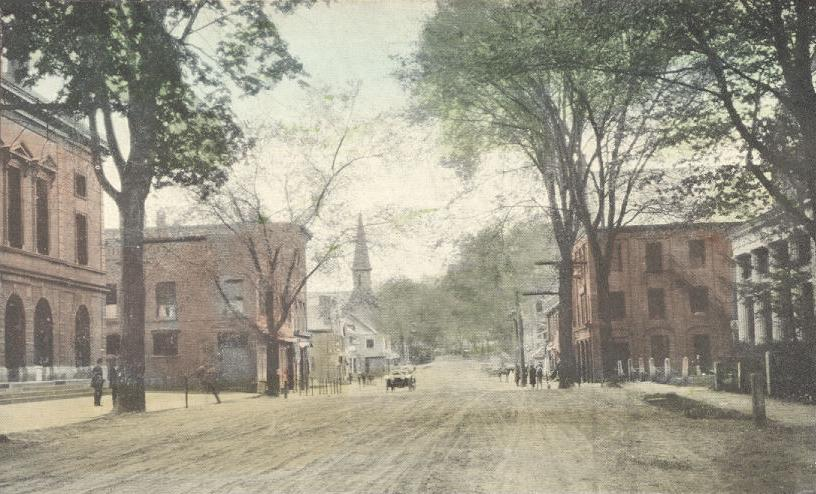 Main Street, Windsor, Vermont; from a c. 1910 postcard